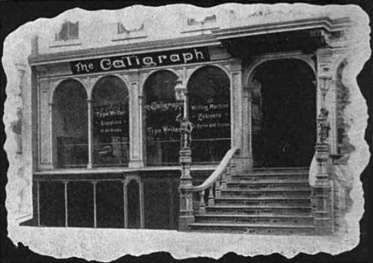 American Writing Machine Company office at 612 Chestnut Street, Philadelphia